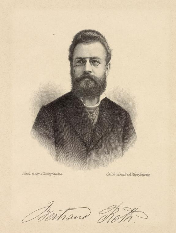 German pianist and composer Bertrand Roth (1855-1938)